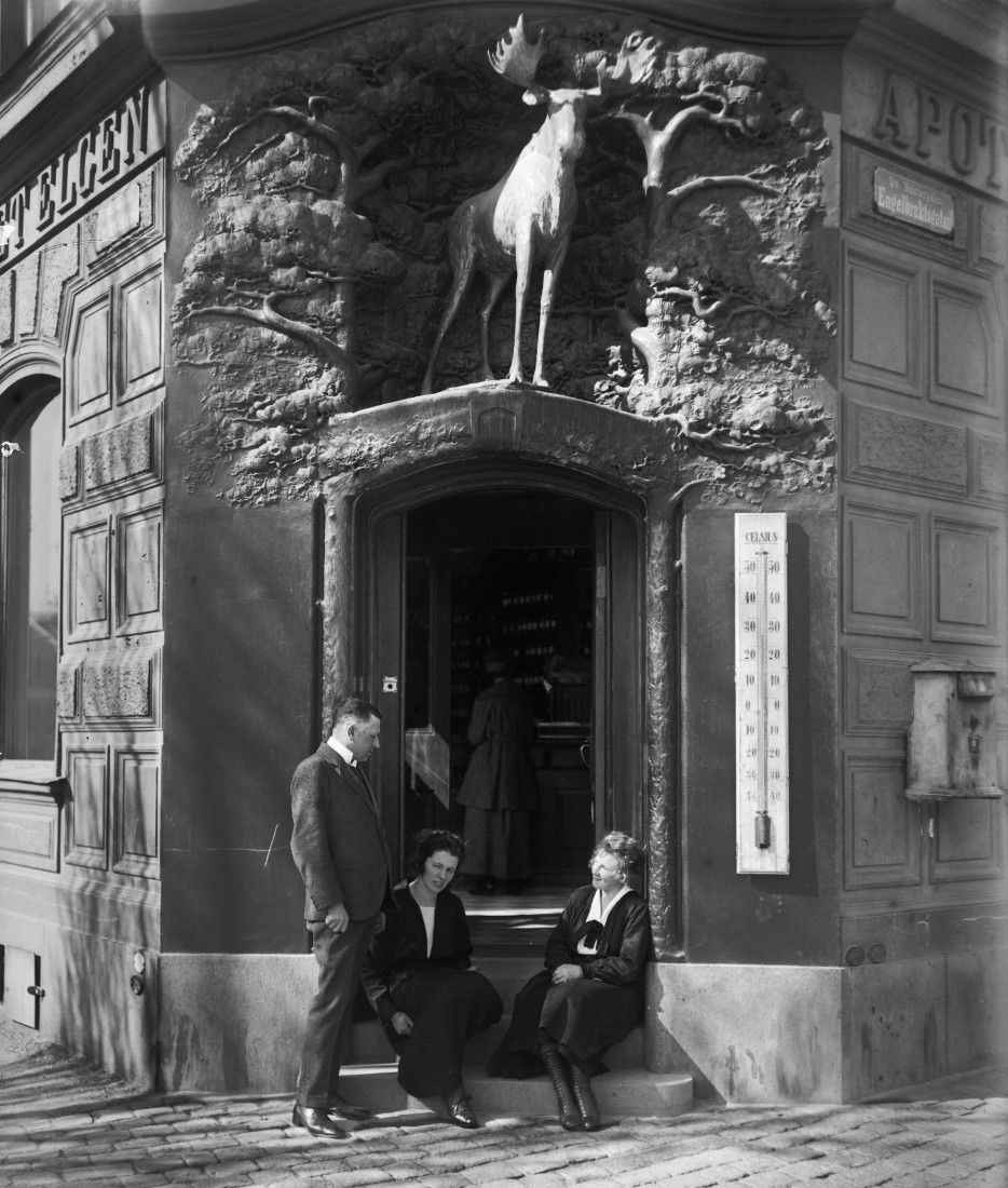 Apoteket Älgen. Carl Fagerberg står till vänster tillsammans med personal utanför entrén. 1920-1935 FOTOGRAF: Swinhufvud, Axel.BILDNUMMER: ASW 3185Stadsmuseet i Stockholm